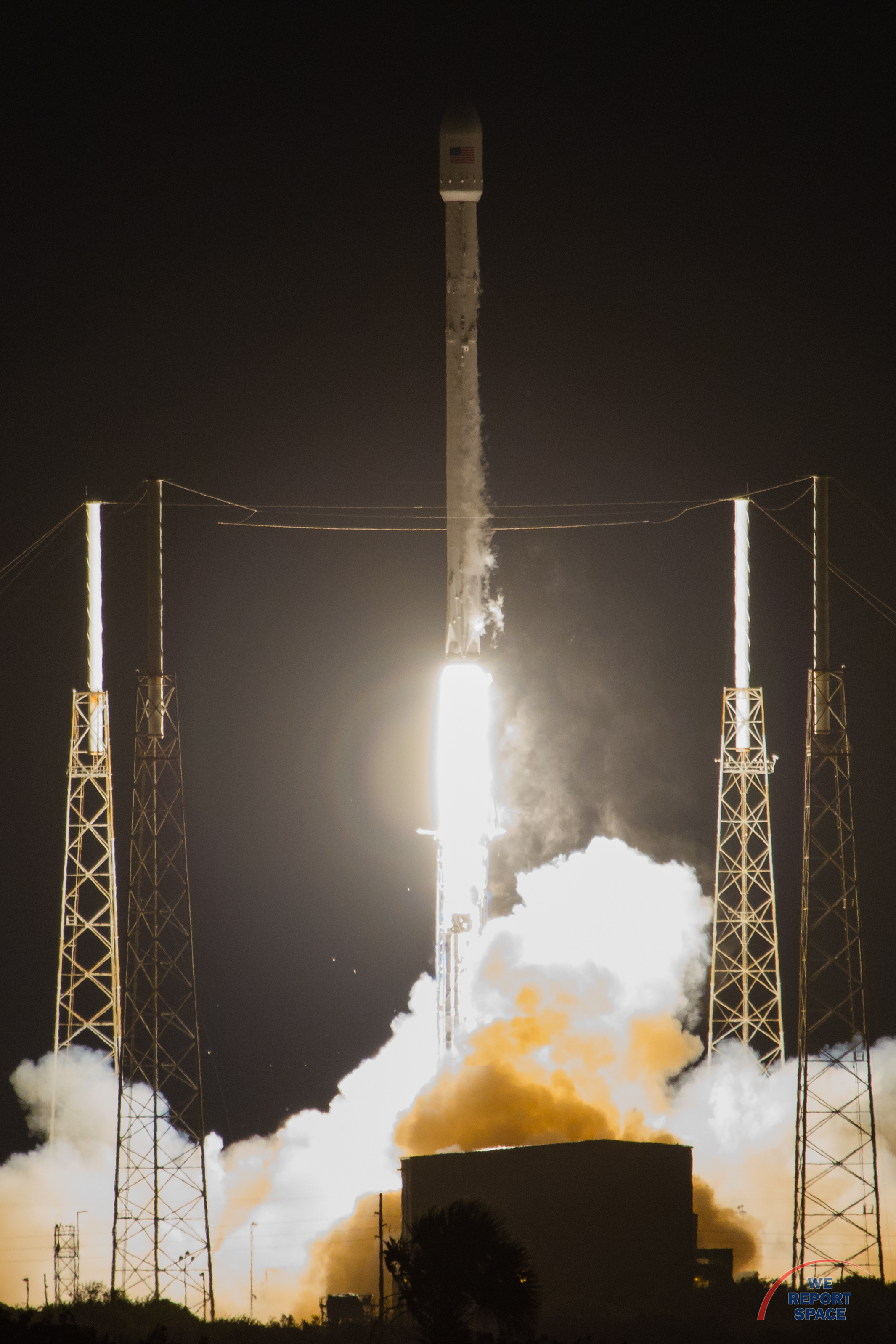 Liftoff of the Falcon9 rocket launched by SpaceX carrying the JCSAT-14 satellite.